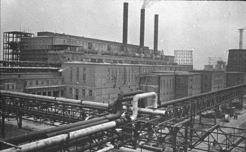 Overview of IG Farben's plant, near Auschwitz" ; circa 1941 Source : German Federal Archive